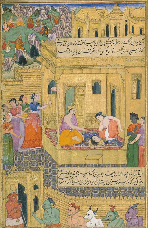 From Ramayana of Hamida banu begum, mother of Akbar. Ravana deceiving Sita with the illusion of Rama's severed head Mughal India, 1594 AD Folio 251 or 252 recto (p. 506?), gouache heightened with gold on paper, Ravana and Sita contemplating the head of Rama as they sit in a golden pavilion, a line of demons stand in the foreground by the gate, in the background the monkeys hold a conference with Rama and Lakshman four lines of black nasta'liq within panels, verso with 18ll. of text within red and gold outlines Miniature 13¾ x 8¾in. (35 x 22.5cm.); text area 9½ x 5½in. (23.7 x 13.8cm.) The subject here is Ravana deceiving the captive Sita as Rama's army approaches his palace in Lanka. He commanded the magician, Vidyjjihva to create the illusion of Rama's severed head and his bow and arrows in order to trick Sita into thinking that Ravana's forces had defeated Rama in battle. When Sita was abducted, Rama and Lakshman joined forces with Sugriva, king of the monkeys and with Hanuman, his general. They are shown here in conference in the top left corner in a very fine detail. The miniature is dominated by the sorrowful figure of Sita apparently isolated within this golden palace with Ravana, but the demons standing guard below and the army top left suggest imminent action.